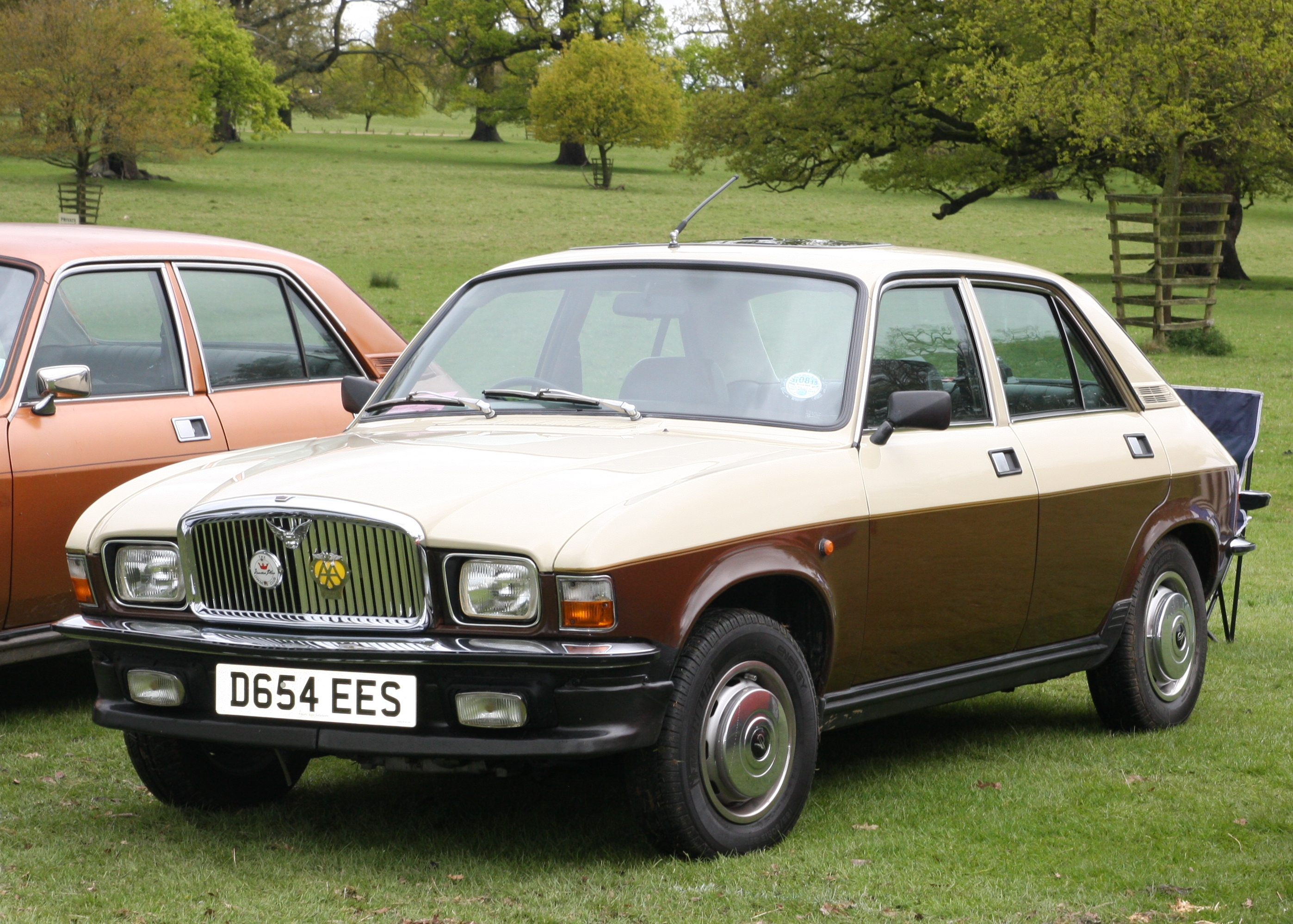 Vanden Plas 1.7 (1987)